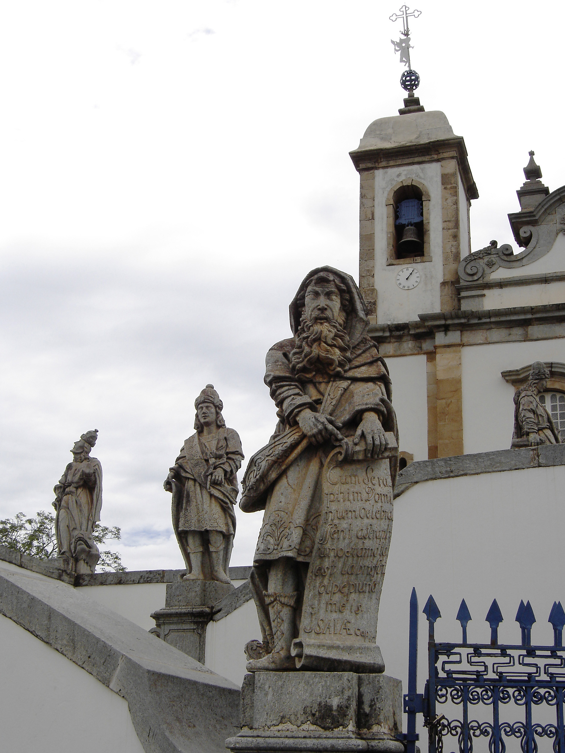 Four of the twelve Prophets sculpted by Aleijadinho in front of the church of the sanctuary of Bom Jesus of Matosinhos at Congonhas, Minas Gerais, Brazil ; in the foreground, Isaiah.